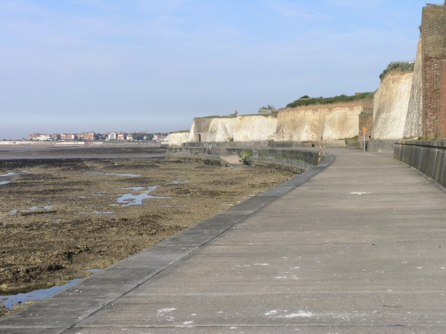 Thanet Coastal Path, near Birchington on Sea, Kent